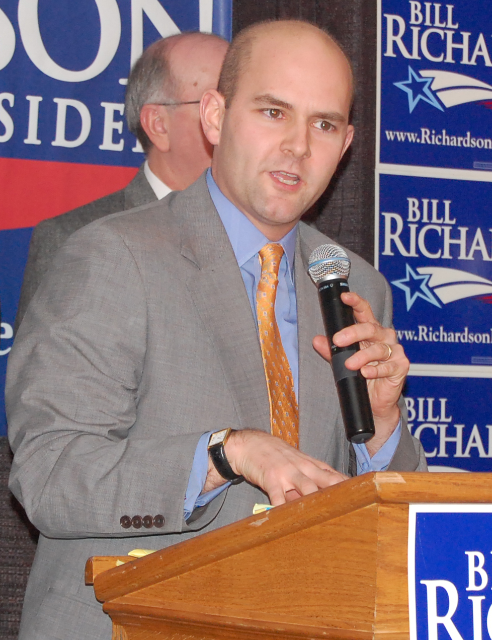 Author: Sean Doyle Date: January 8th, 2008 Location: Manchester, NH Description: Photo of Fmr. Mayor Steve Marchand